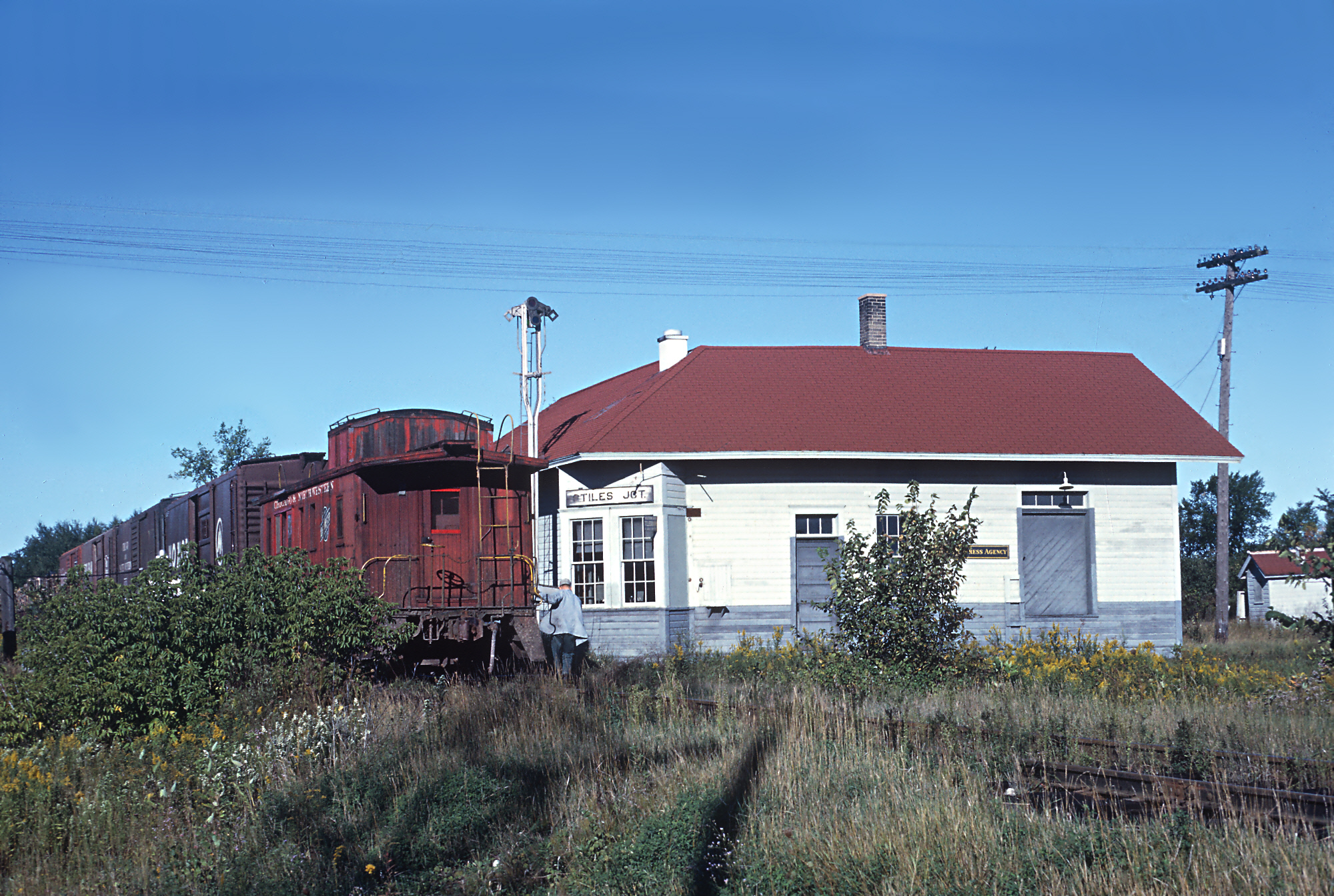 A Roger Puta Photograph